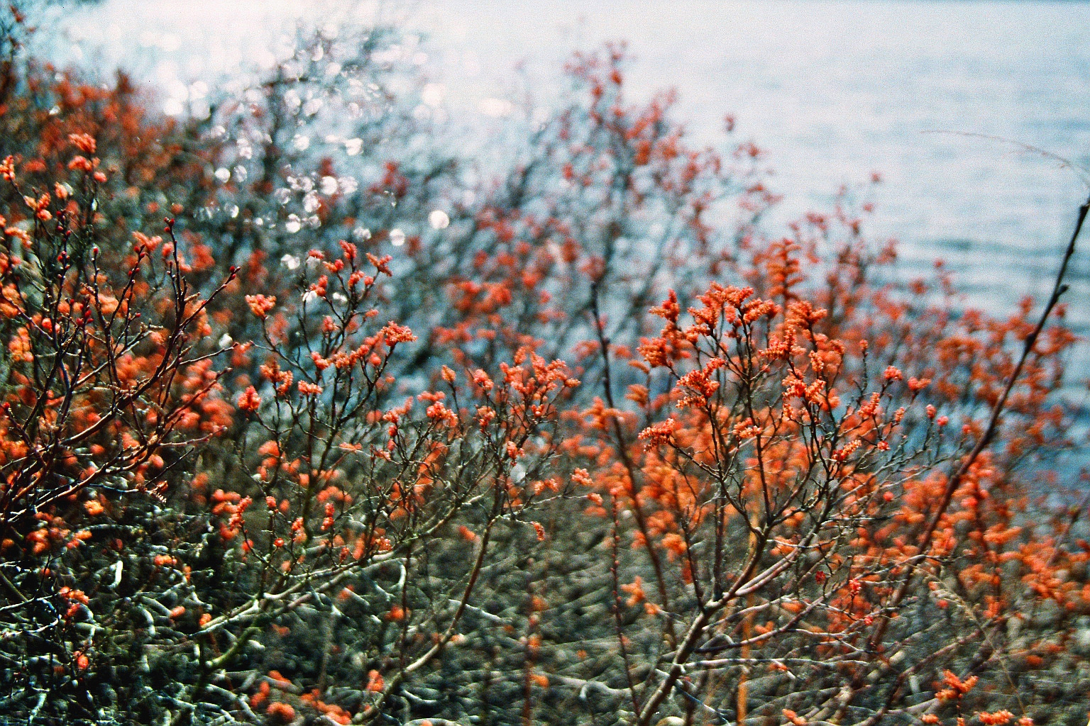 Bog-myrtle (Myrica gale) bushes at the Erdfallsee in the nature reserve „Heiliges Meer“ in Hopsten, Kreis Steinfurt, North Rhine-Westphalia, Germany.